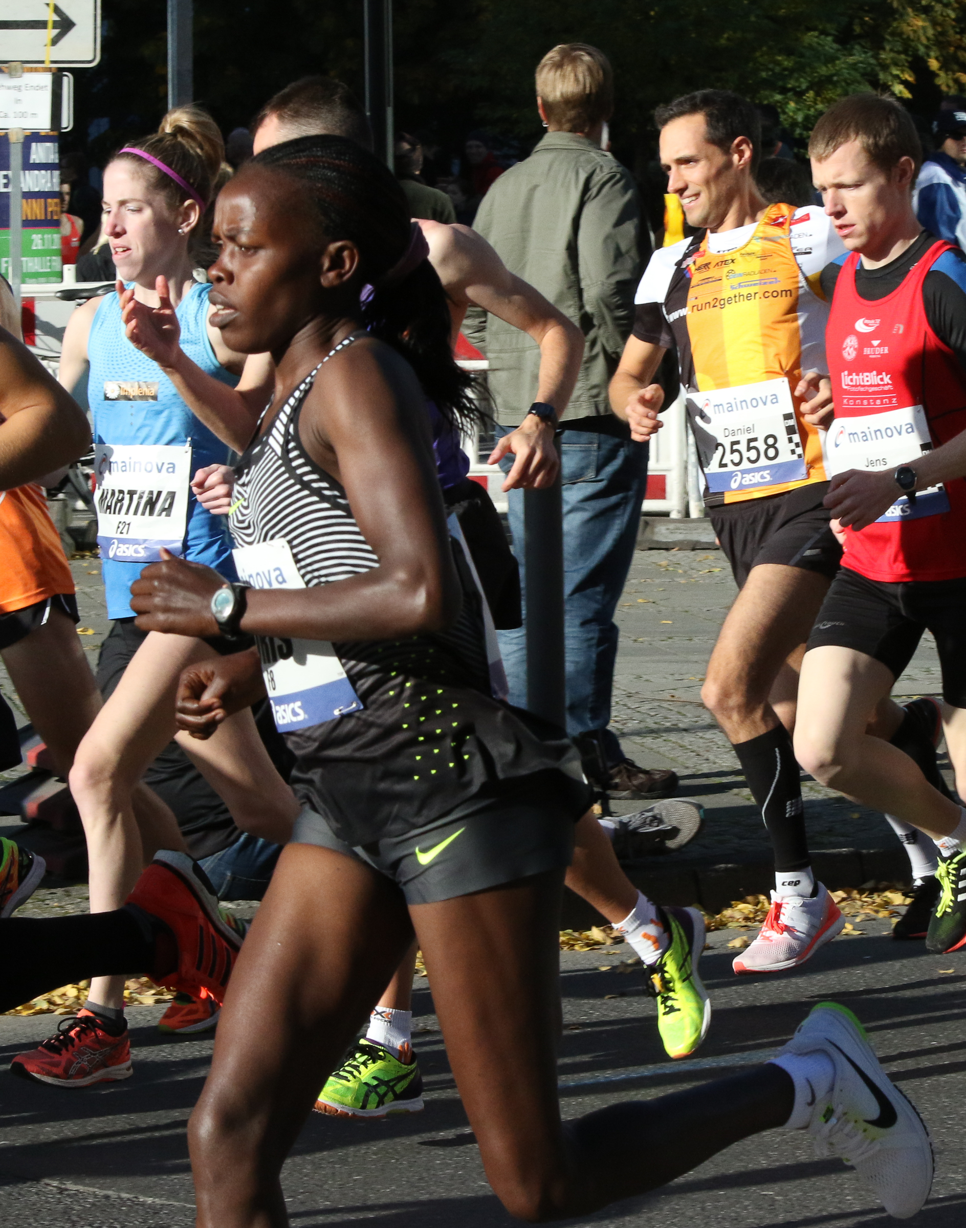 Doris Changeywo during the 2016 Frankfurt Marathon